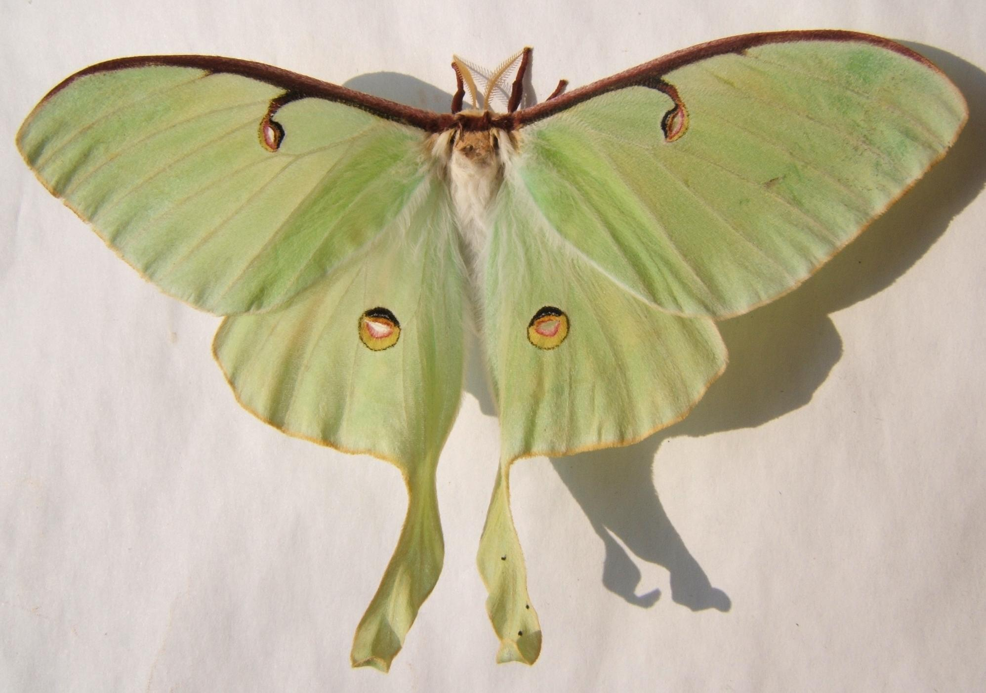 Actias luna female taken by Shawn Hanrahan and reared on American Sweetgum.